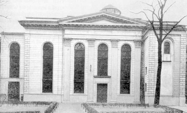 White Stork Synagogue in Wrocław